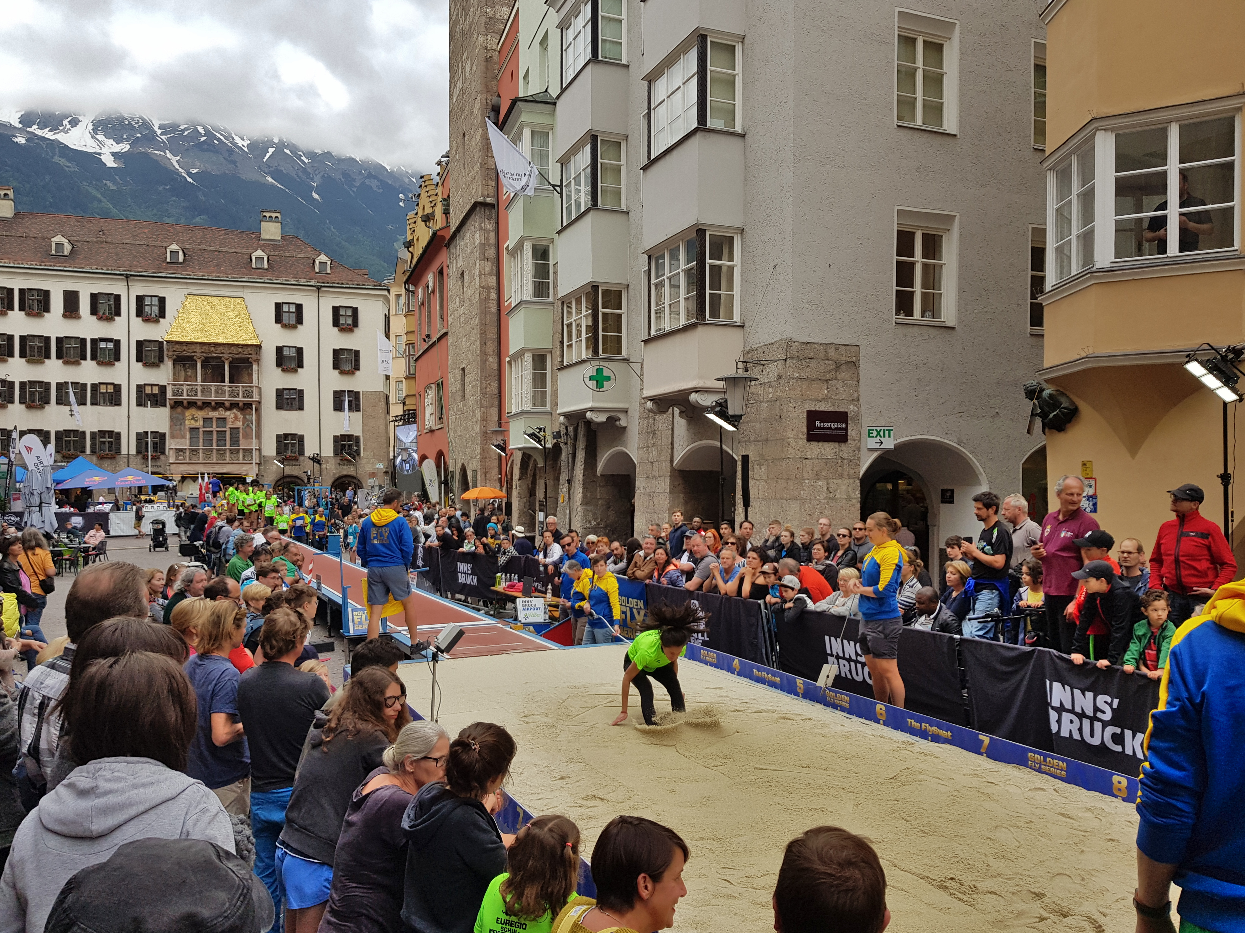 Golden Roof Challenge